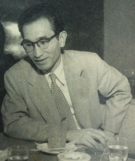 Shō Hiroshi